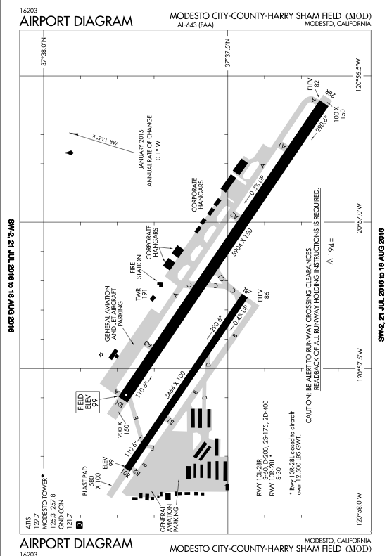 Runway Diagram for KMOD Modesto City-County Airport